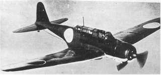 Nakajima B5N2 "Kate" torpedo bomber in flight. The Nakajima B5N (Japanese: 中島 B5N, Allied reporting name "Kate") was the standard carrier torpedo bomber of the Imperial Japanese Navy (IJN) for much of World War II.